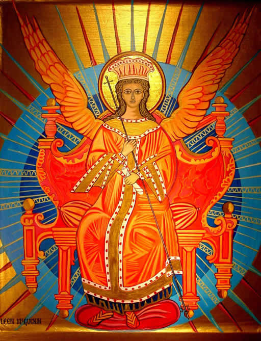 Icon of St. Sophia